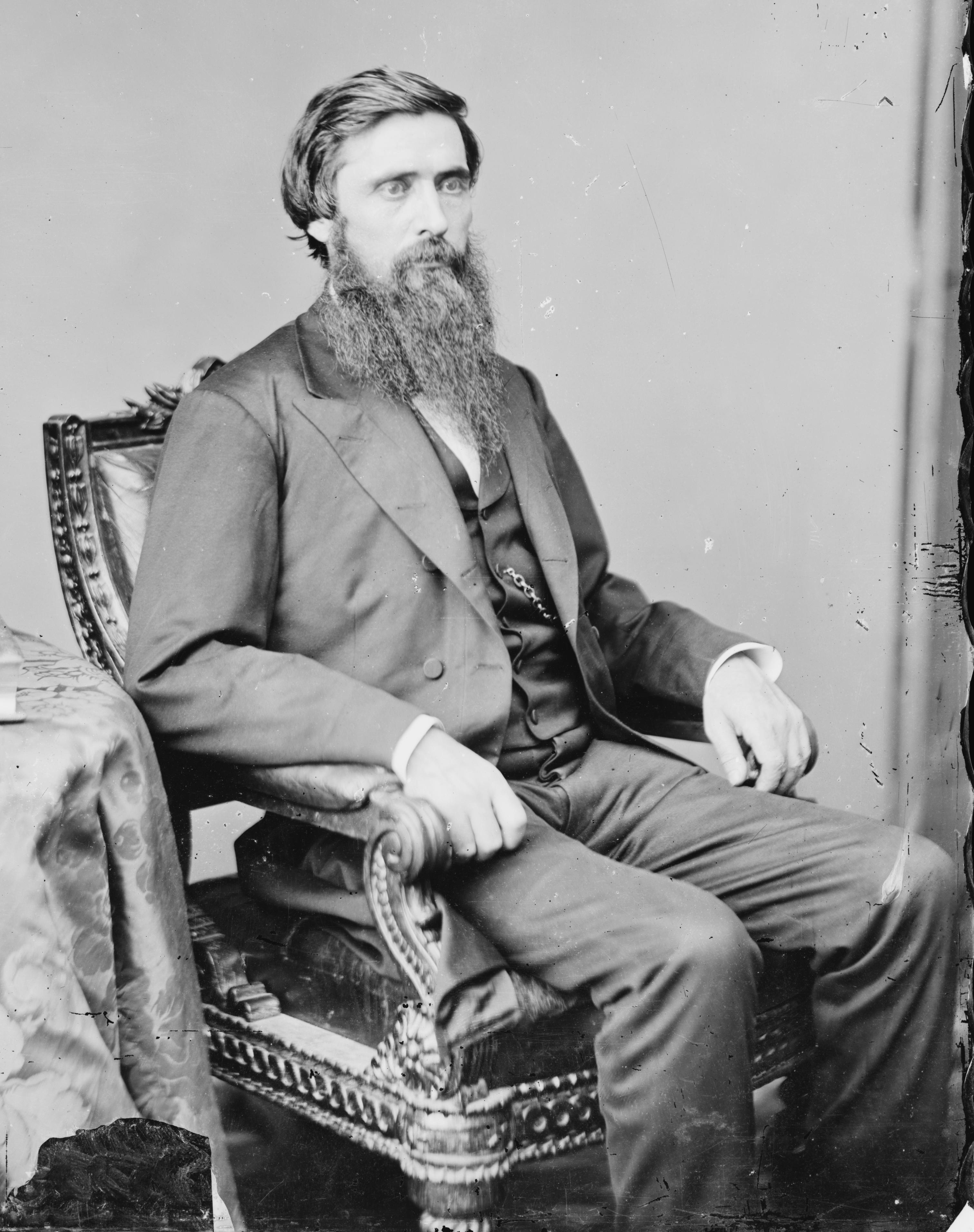 John Aaron Rawlins. Library of Congress description: "John A. Rawlins".